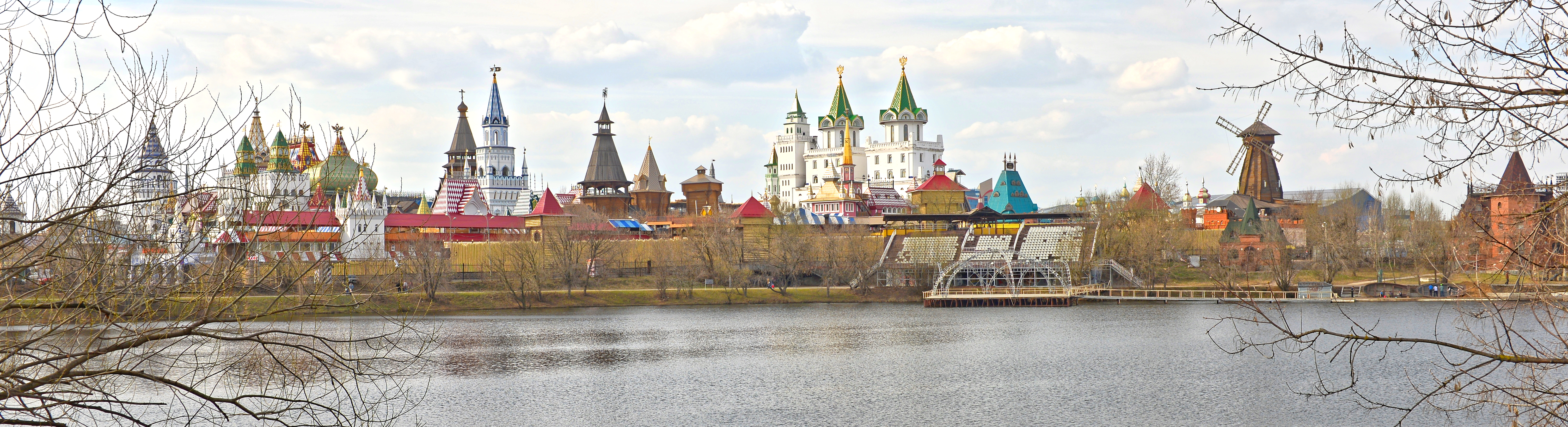 Panorama of the Kremlin in Izmailovo